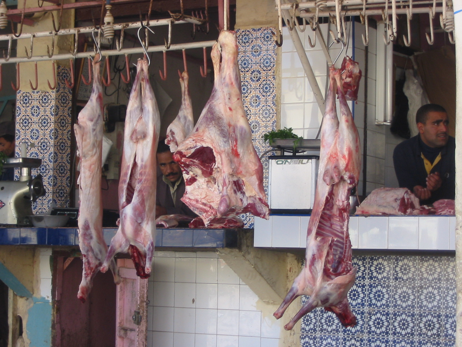 Butcher in Morocco